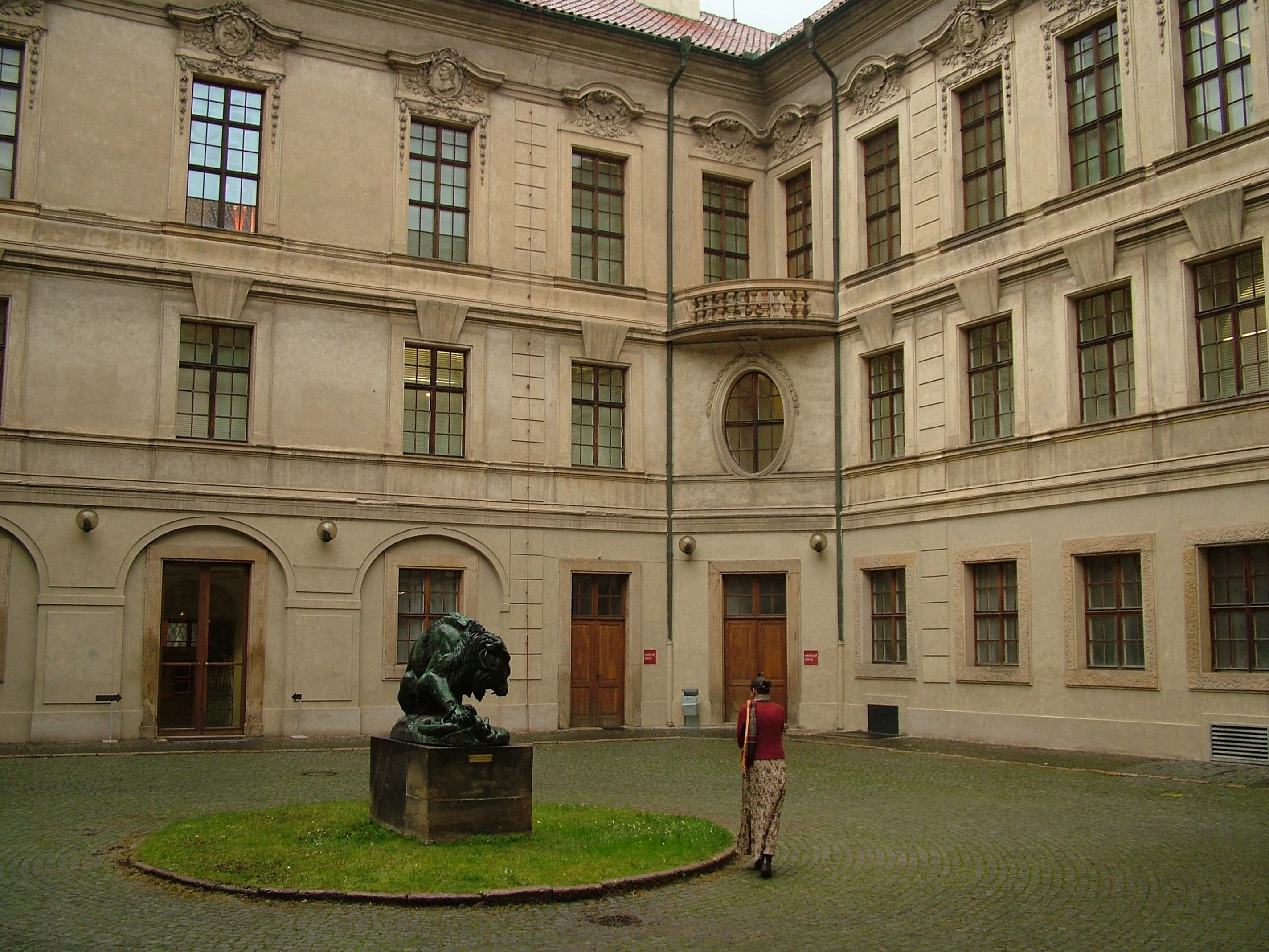 Šternberský palác - Prague